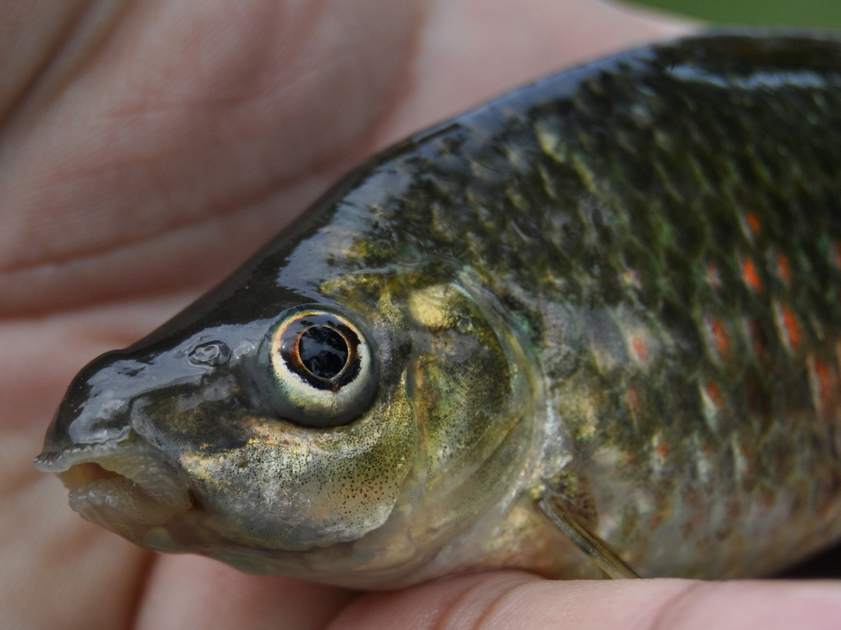 Hard-lipped Barb (Osteochilus hasseltii, syn. O. vittatus), 118 mm SL, From Tasikmalaya, West Java, Indonesia. Front and head.